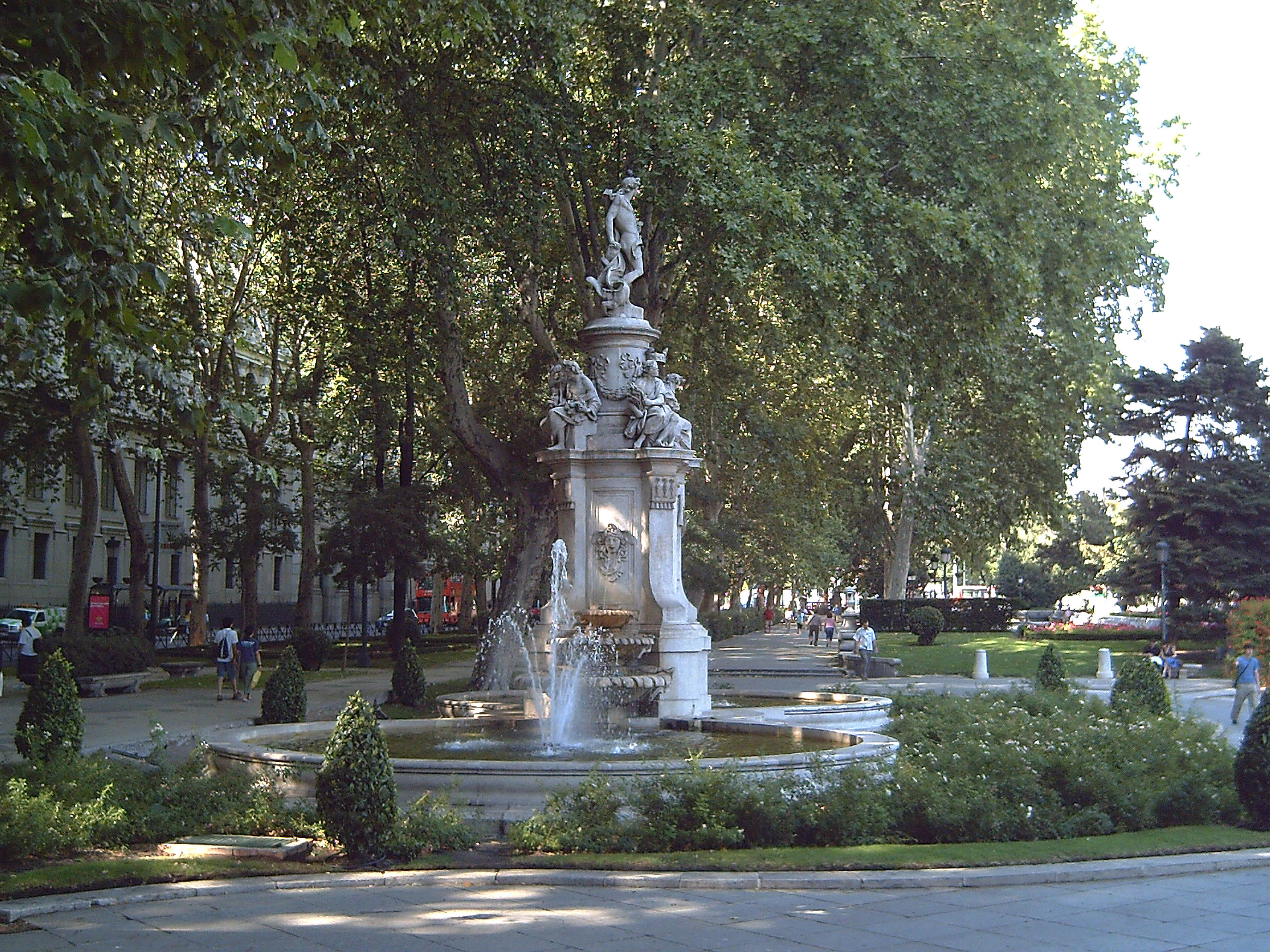 View of the Fountain of Apollo in Madrid (Spain).